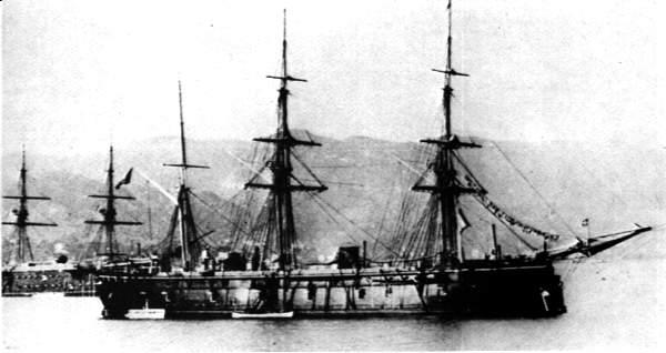 Italian armored steam frigate RN Roma of Regia Marina